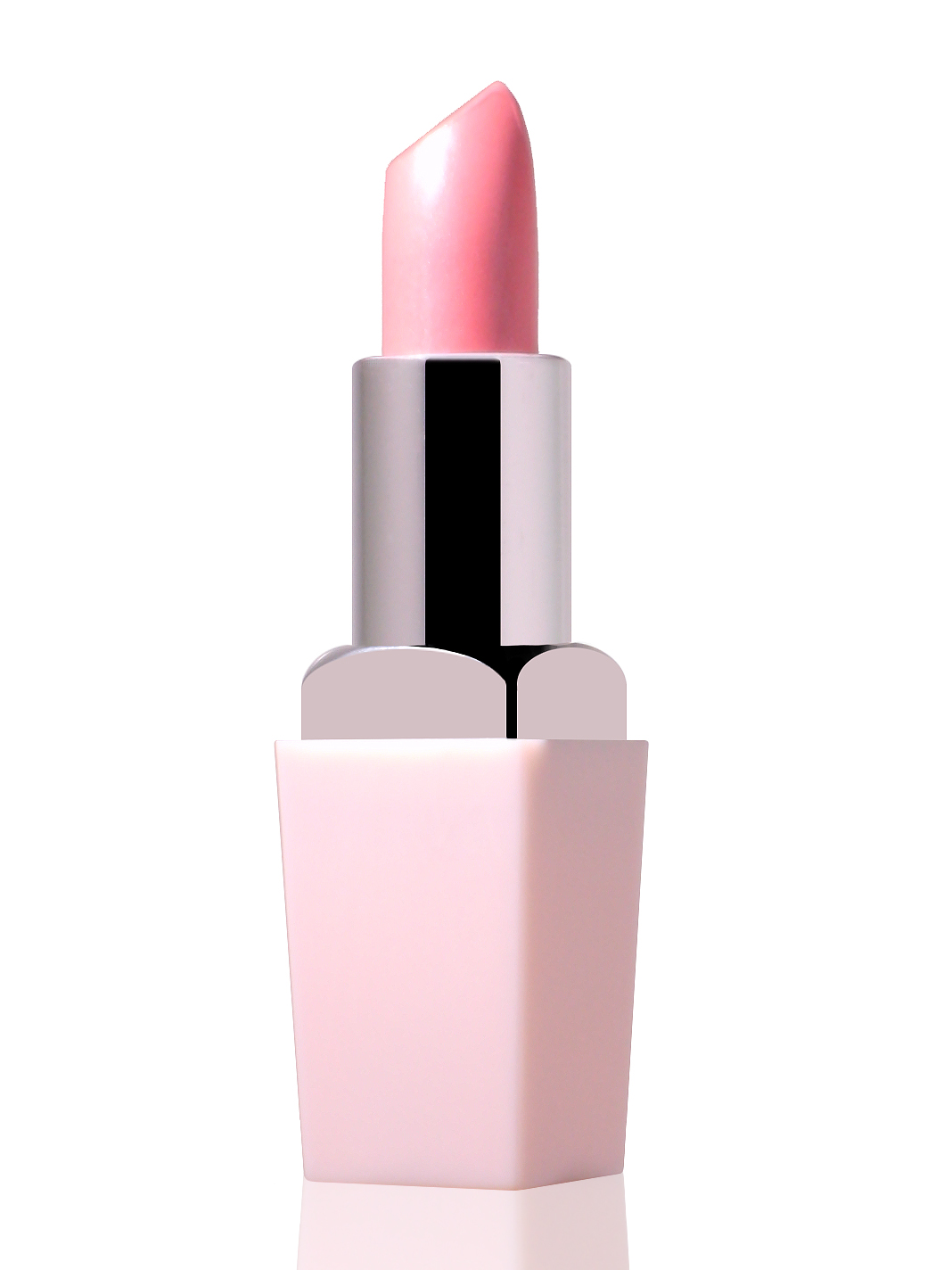 Lipstick